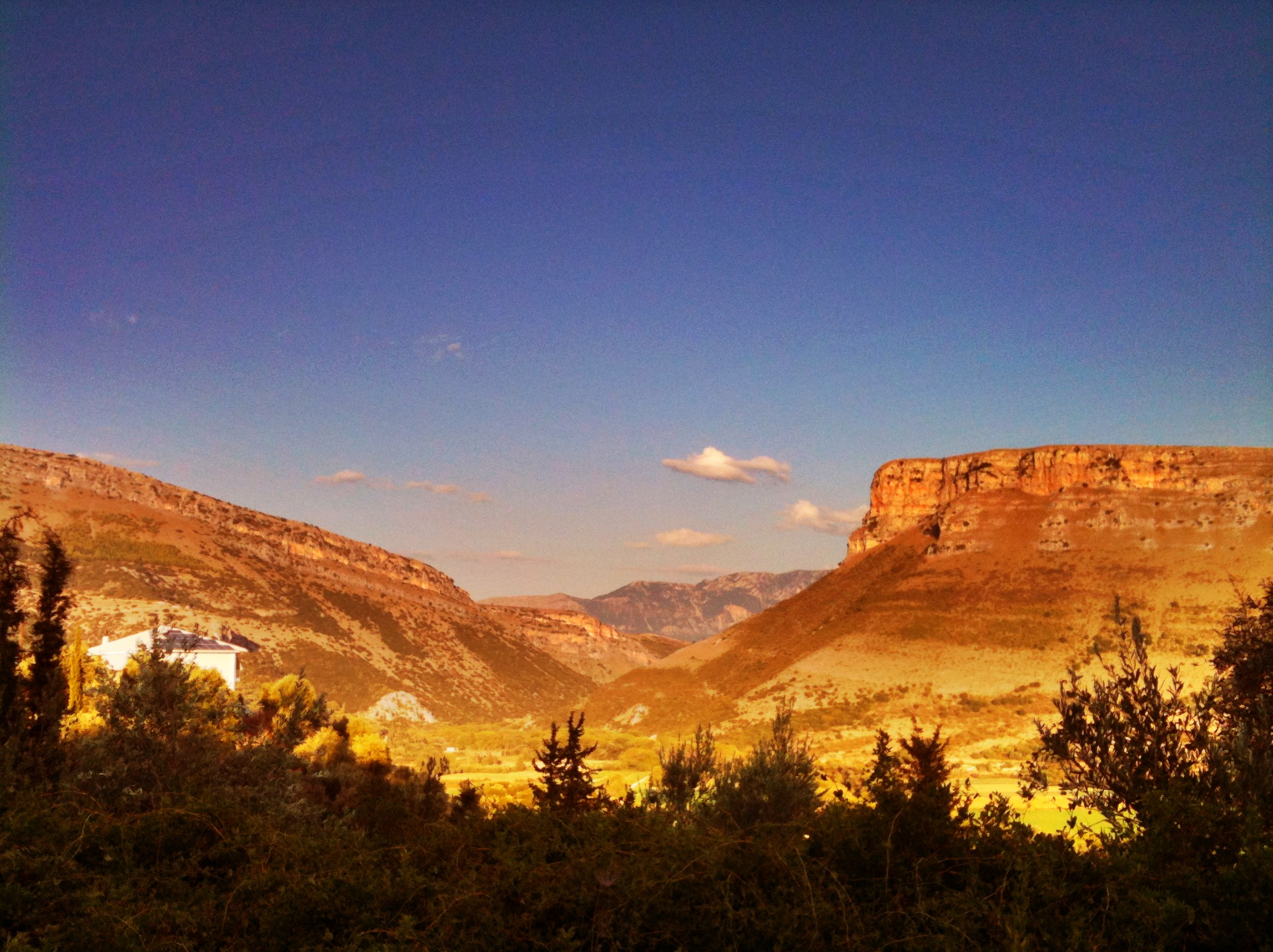 View from Vrisella